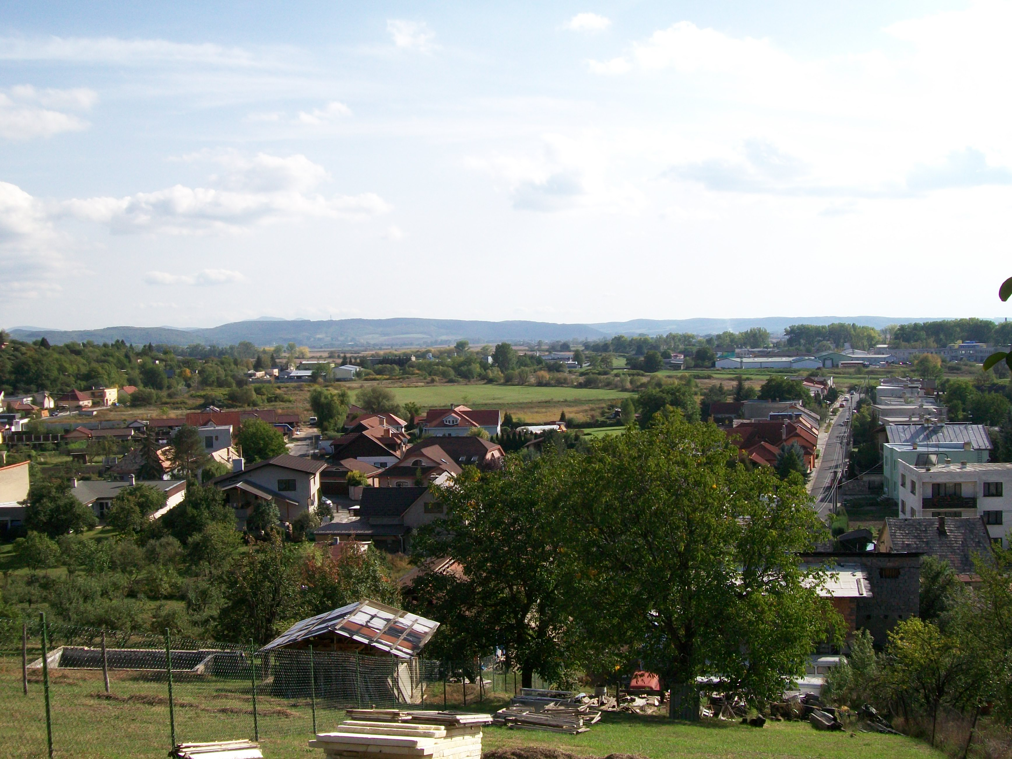 A view of Mala Ves (part of the Lučenec)